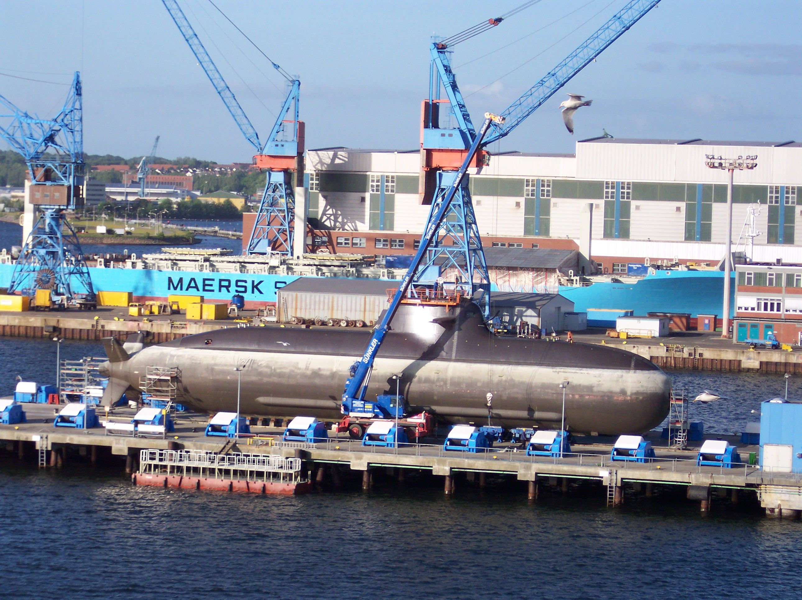 Submarine Typ 212 in Docks at HDW/Kiel. Picture taken by my own. This picture may have usage restrictions.